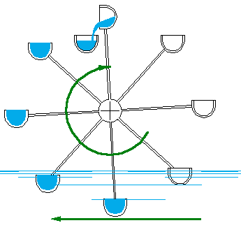 Schematic of a water wheel (noria) Author : R. Castelnuovo (myself) 2005 09 16